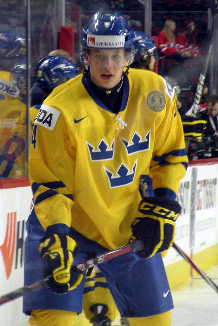 Swedish forward Rickard Rakell prior to a semi-final game against Team Finland at the 2012 World Junior Hockey Championships at Calgary, Alberta, Canada.